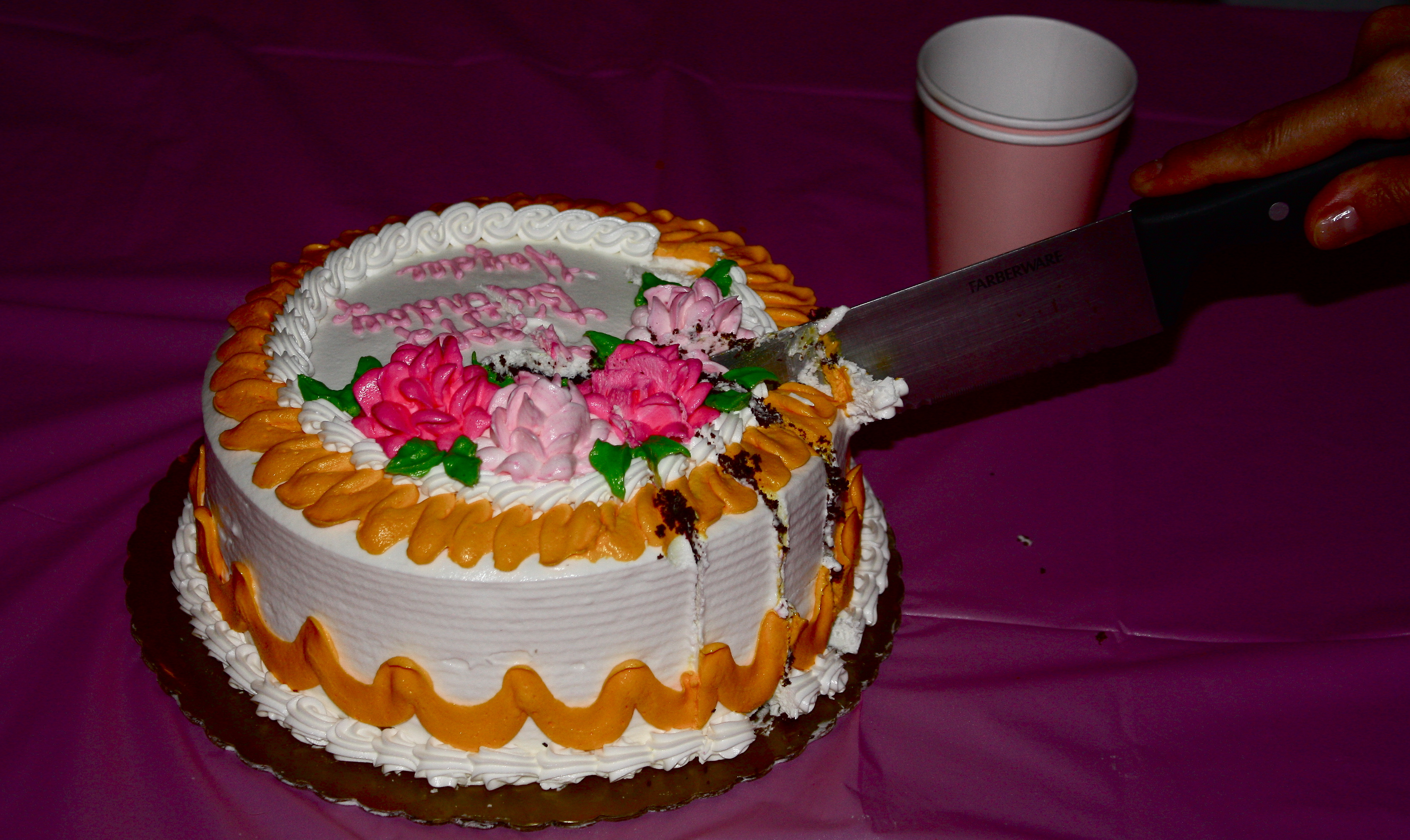 Cut the Cake